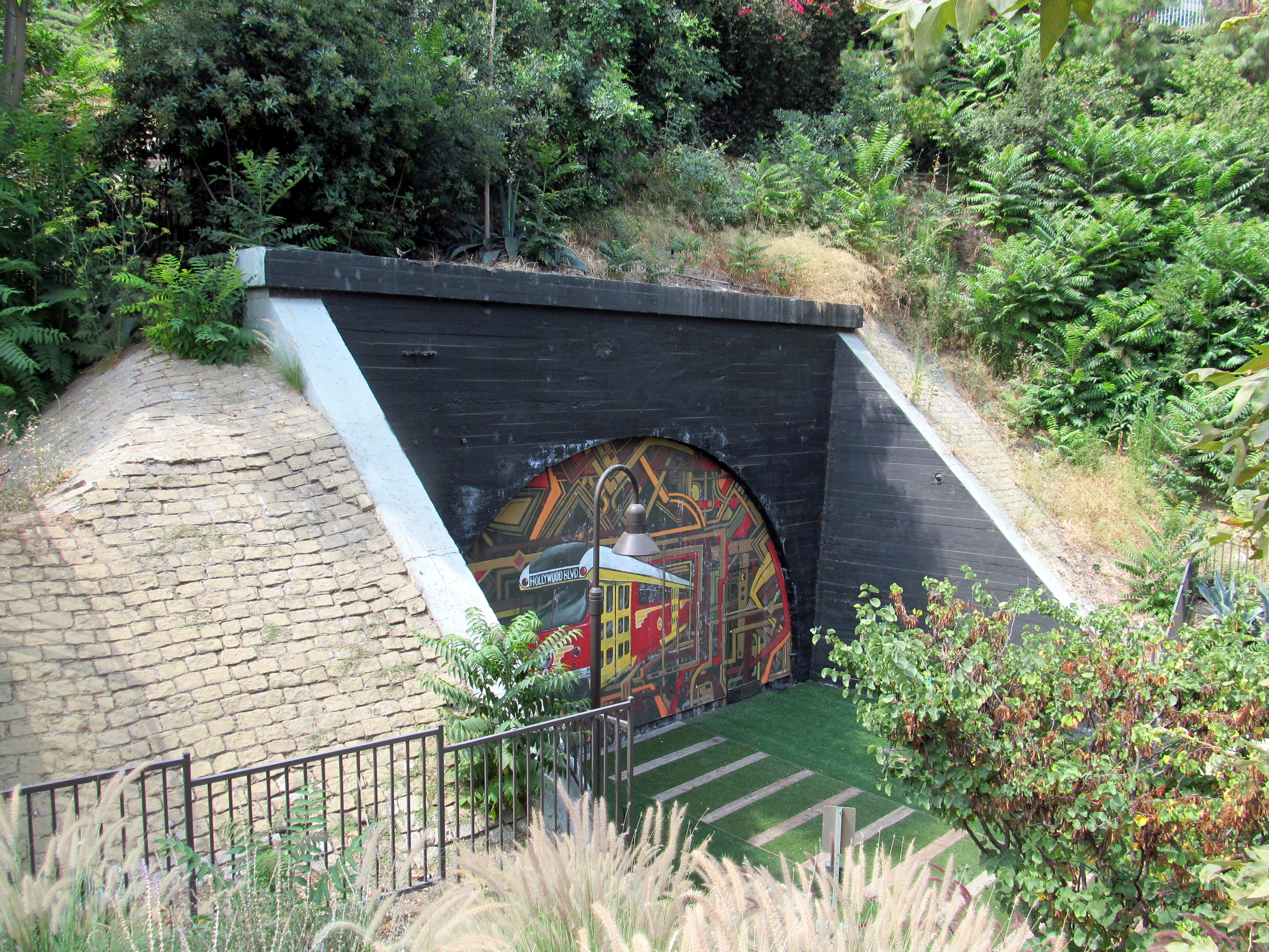 Remaining portal of the Belmont Tunnel in July 2017